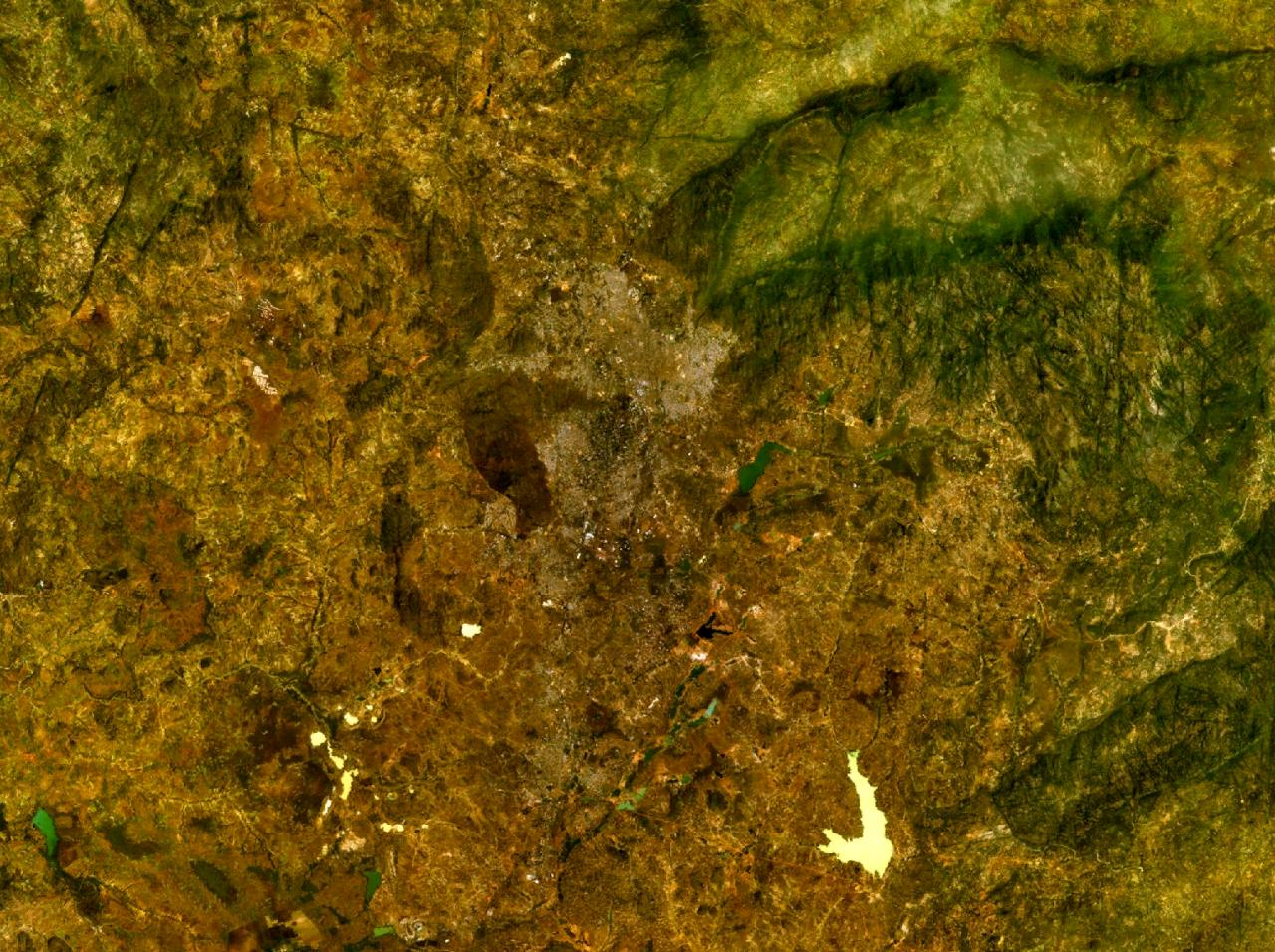 Satellite map of Jos, Nigeria